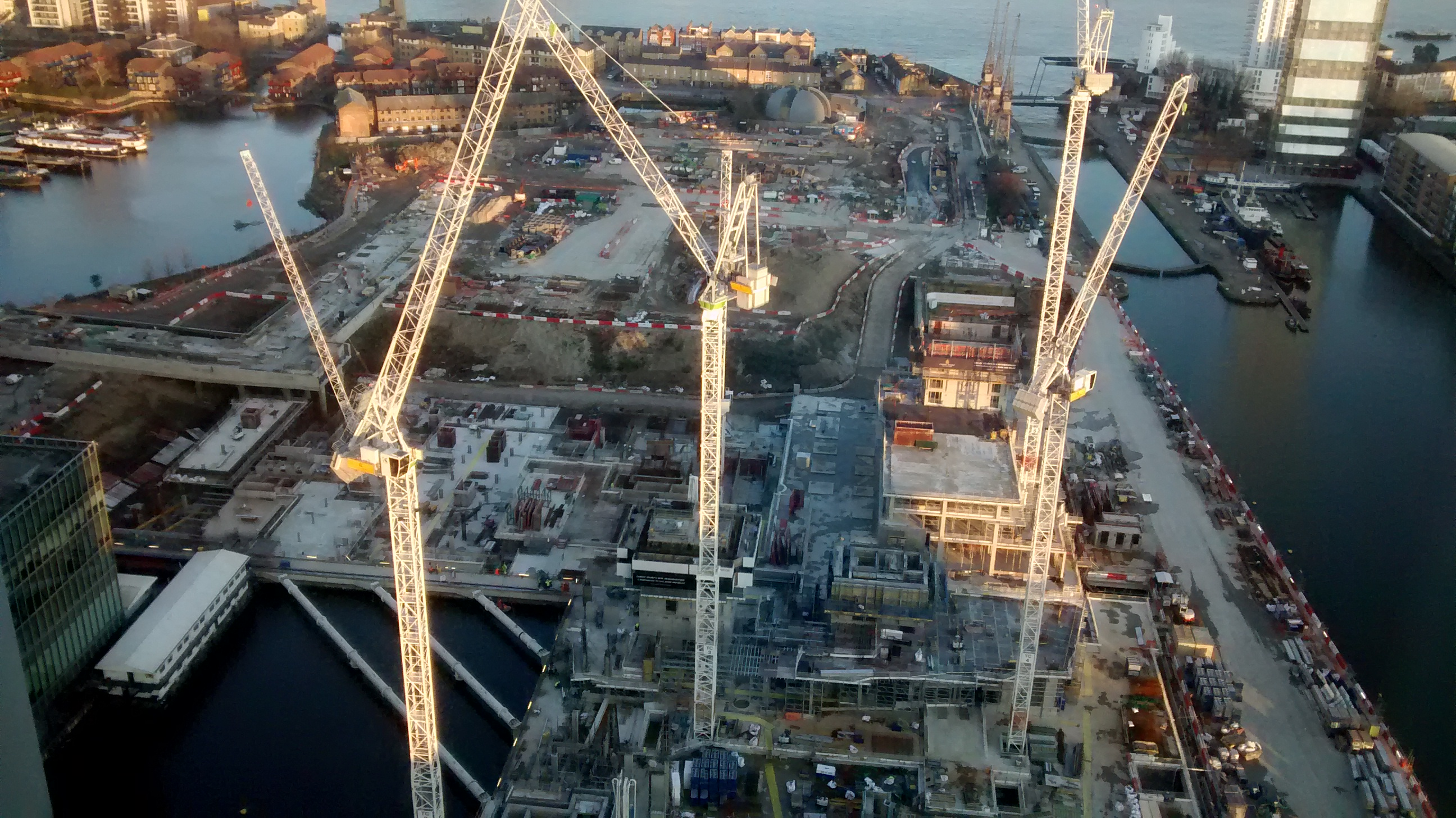 Wood Wharf under construction on 18 February 2017, as seen from Canary Wharf.